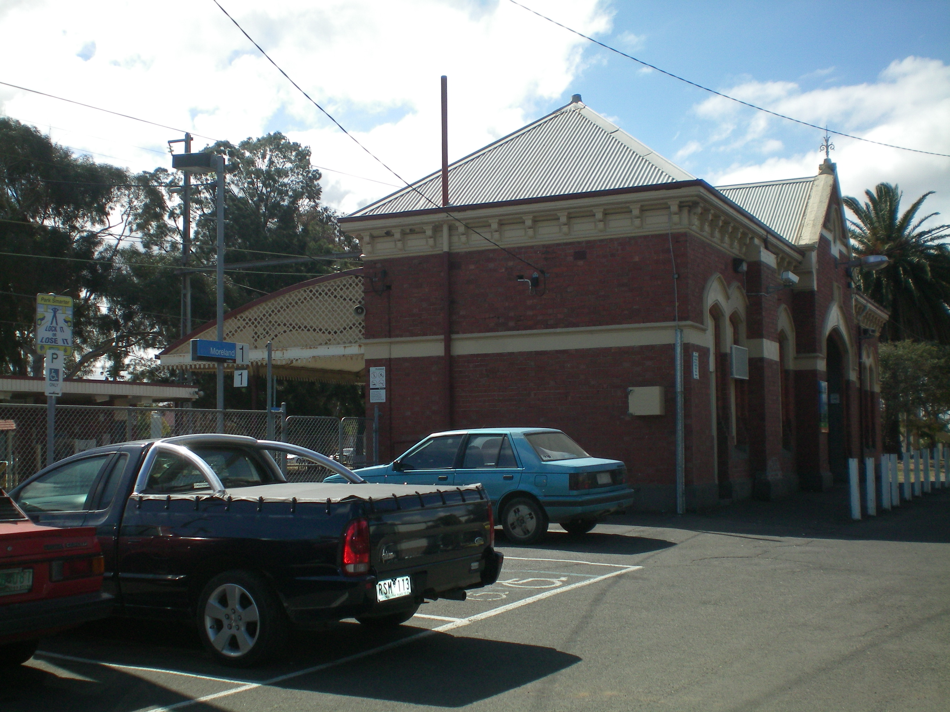 Moreland Railway Station in Brunswick